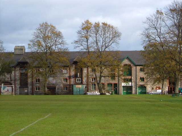 Tuckers Maltings across Osborne Park